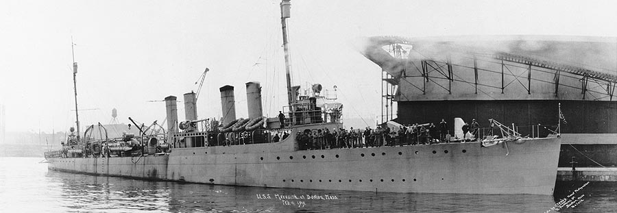 The U.S. Navy destroyer USS Meredith (DD-165) at Boston, Massachusetts (USA), on 4 February 1919.